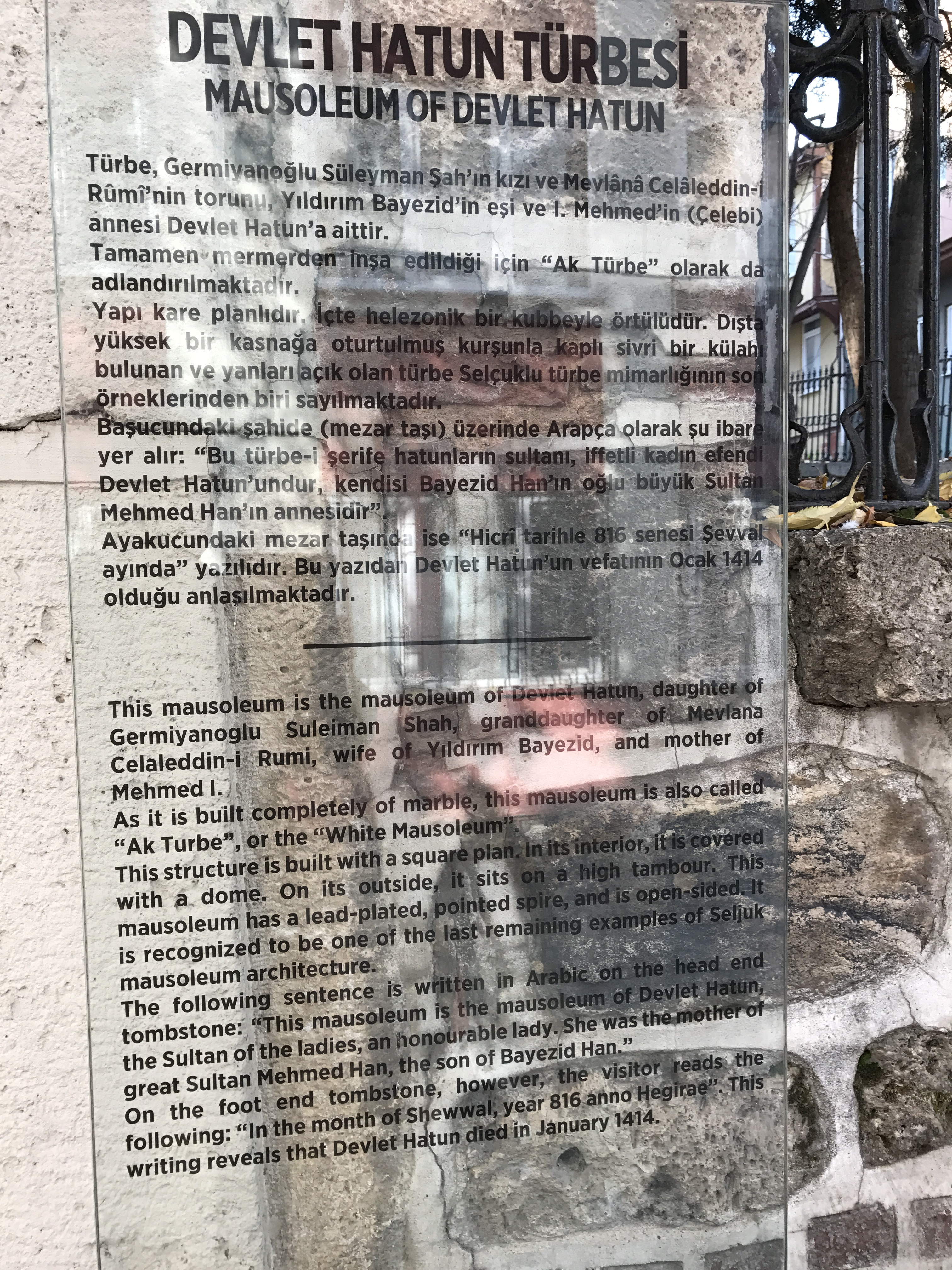 The tomb of Devlet Hatun: The tomb of Devlet Hatun stands alone in Bursa neighbourhoods separate from the mosque complexes that contained the tombs of the sultans and other members of the dynasty. The sign outside her tomb gives the following details: "It was built by Sultan Mehmed I. Devlet Hatun was the wife of Sultan Bayezid I and the mother of Sultan Mehmed I. She was the daughter of a Germiyanid prince. Her mother was the granddaughter of Mevlâna Celâleddini Rumi. Devlet Hatun died in 1412